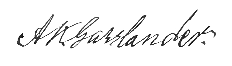 Signature of Anders Kristian Gasslander, överkommissarie, amiralitetsråd, member of the second chamber of the Swedish Riksdag.